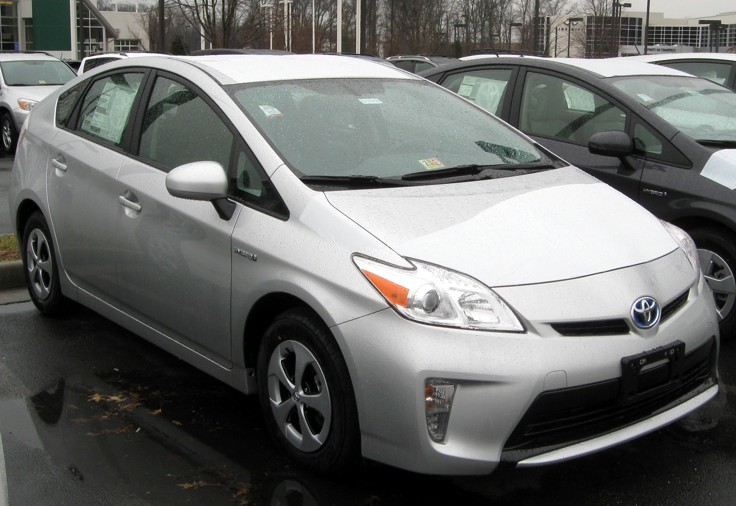 2012 Toyota Prius "Four" model photographed in Chantilly, Virginia, USA.